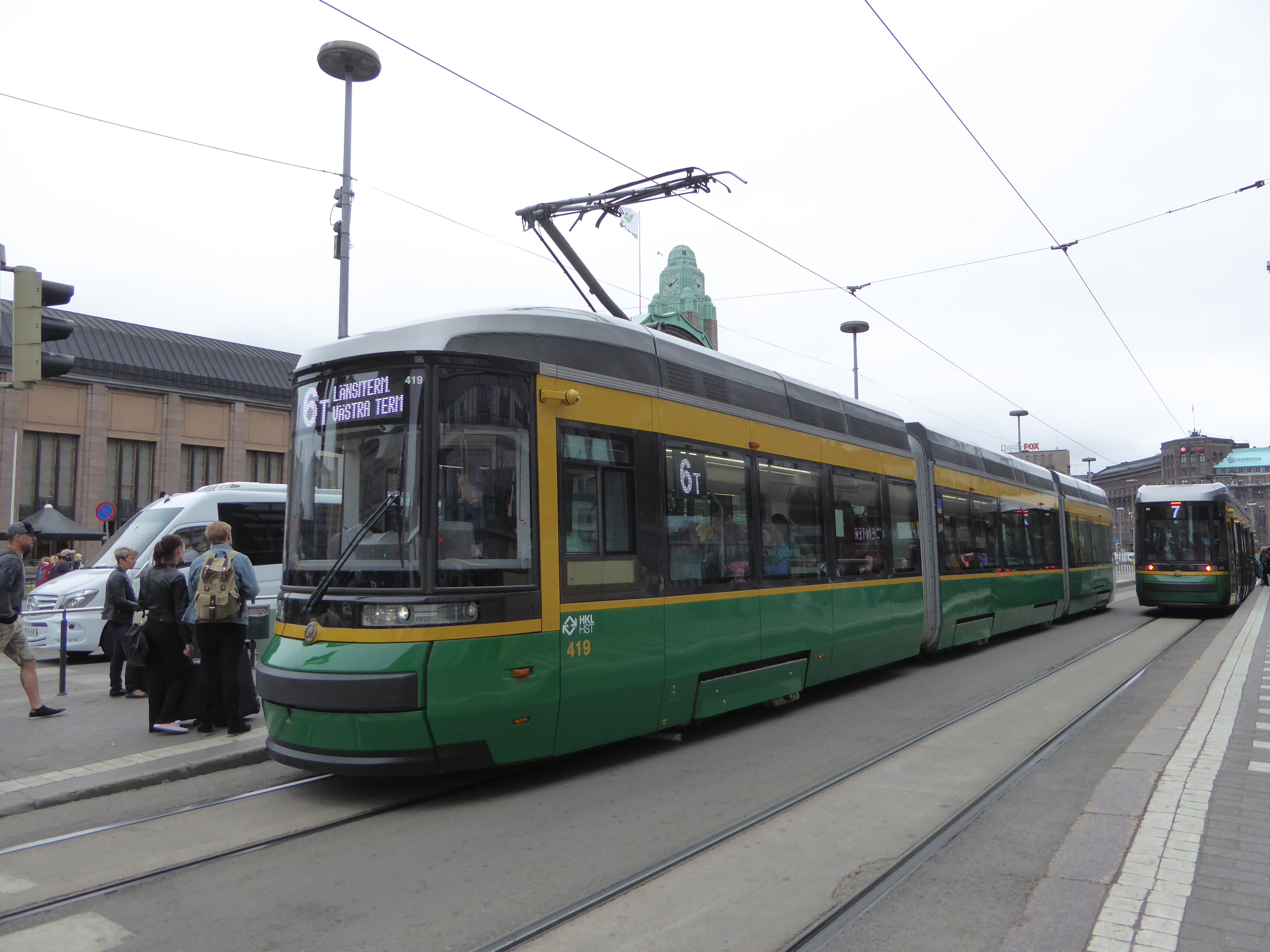 HKL tram line 6T on Rautatientori at Helsingin päärautatieasema (Helsinki Central railway station).